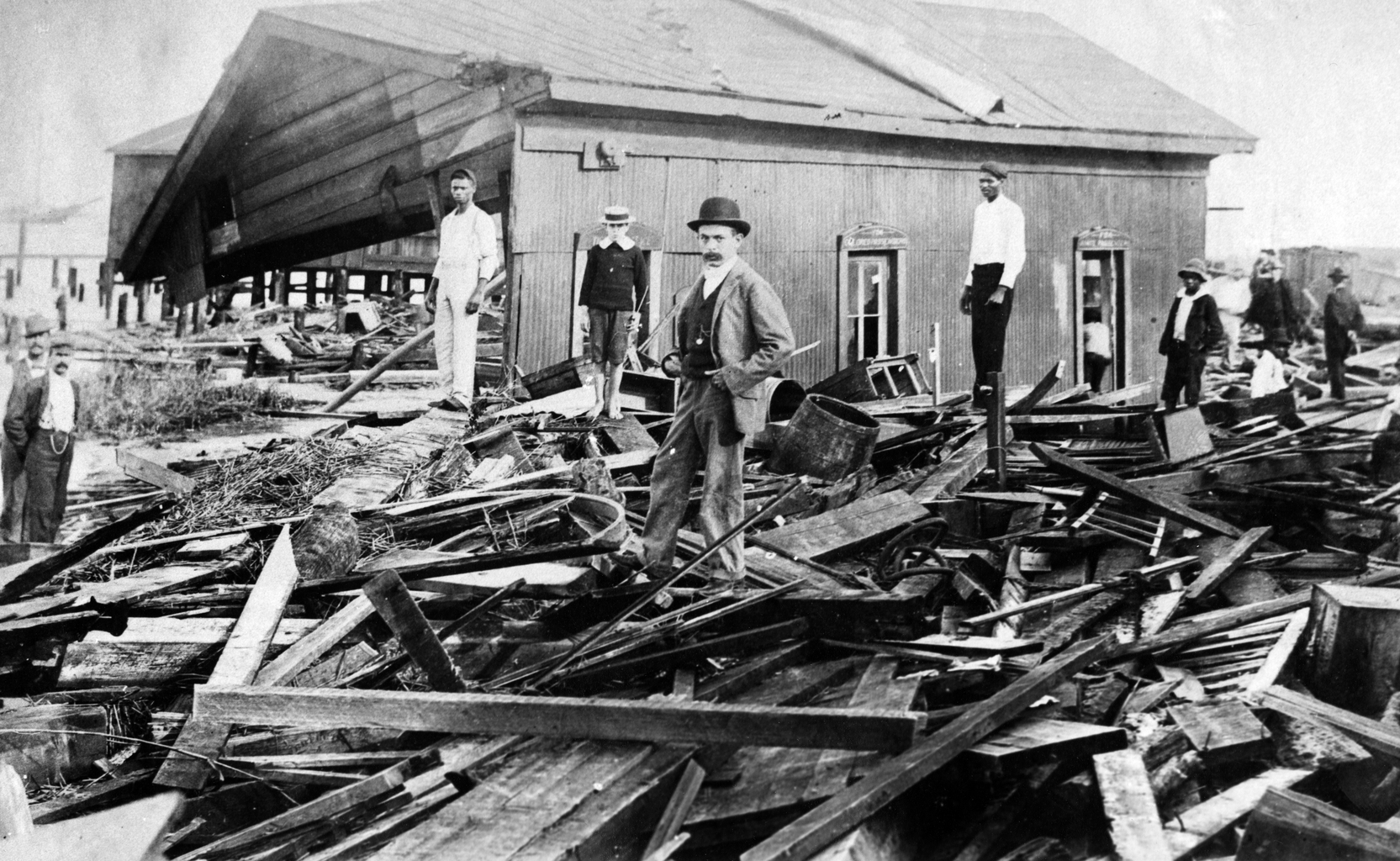 This image shows the devastation caused by the Great Hurricane of 1896 that struck the Gulf and Atlantic coasts of Florida. With its 2,200-kilometer coastline, Florida is the U.S. state most vulnerable to these storms. More than 450 recorded tropical storms and hurricanes have reached its shores since European exploration began. The hurricane of September 1896 destroyed most of the residential area of the town of Cedar Key on the upper west coast of the Florida peninsula, killing dozens of residents and destroying most of Cedar Key’s industries. Before making landfall, the storm and its tidal surge overwhelmed more than 100 sponging boats, killing untold numbers of crewmen. The hurricane then crossed the peninsula, leaving a wide swath of destruction until it reached the Atlantic coast at Fernandina, before heading north to Virginia. This image shows survivors, both white and black, in Fernandina, standing atop mounds of rubble, still seemingly shocked by the destruction. Other famous storms in Florida history include the Okeechobee Hurricane of 1928 and the Labor Day Hurricane of 1935. In Their Eyes Were Watching God, Zora Neale Hurston described the devastating flood waters of the 1928 hurricane, which killed more than 2,000 people, mostly migrant farm workers. The 1935 hurricane took the lives of more than 350 World War I veterans working on construction projects in the Florida Keys. Hurricanes